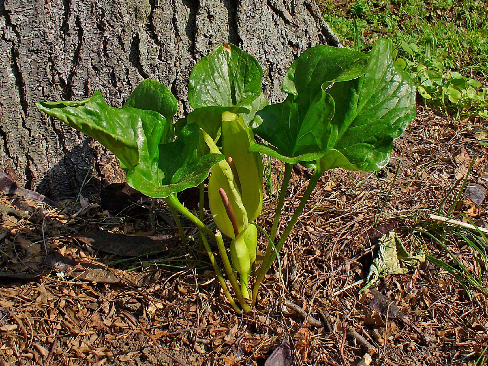 Arum maculatum, Araceae, Wild Arum, Lords and Ladies, Jack in the Pulpit, Devils and Angels, Cows and Bulls, Cuckoo-Pint, Adam and Eve, Bobbins, Naked Boys, Starch-Root, Wake Robin, habitus; Karlsruhe, Germany. The fresh subterranean parts are used in homeopathy as remedy: Arum maculatum (Arum-m.)